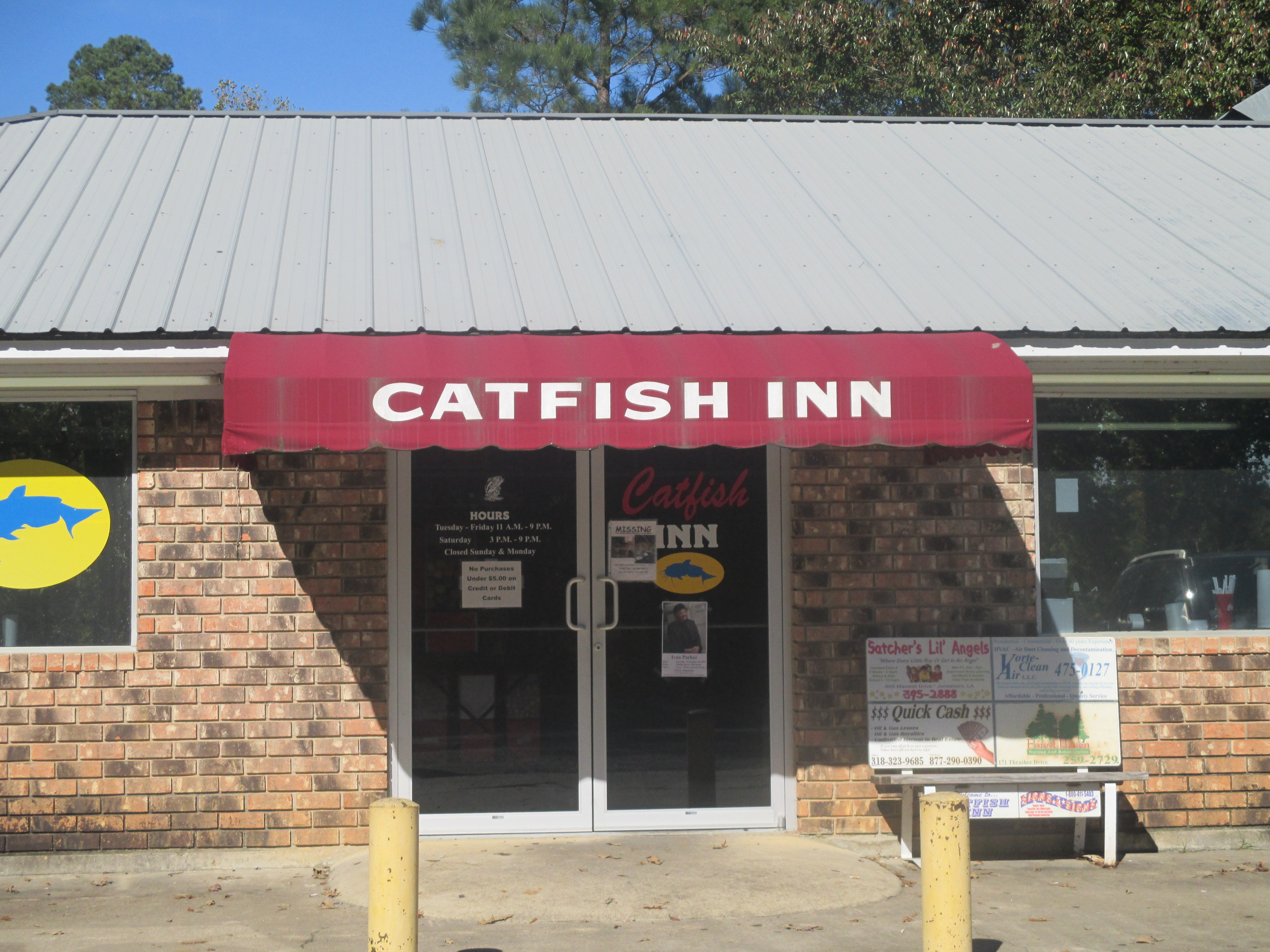 I took photo of Catfish Inn restaurant west of Hodge, LA, with Canon camera.